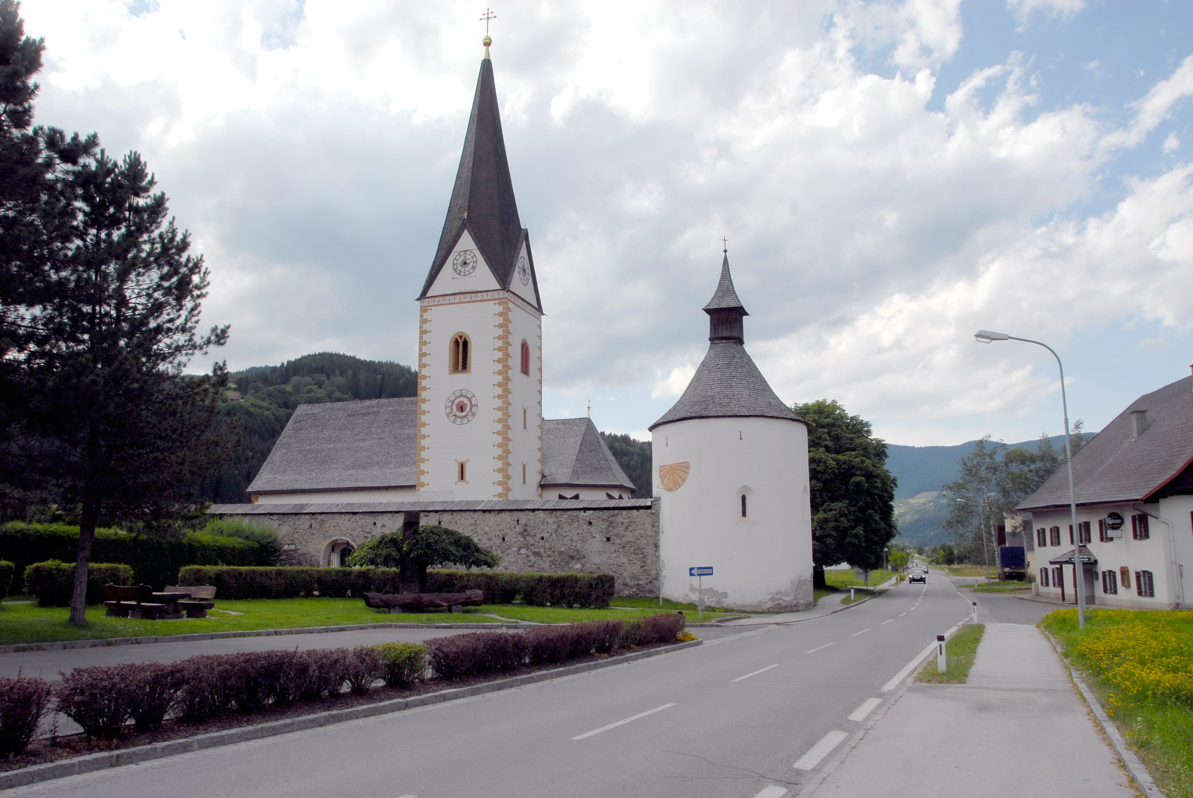 Parish church Saint Margaret in Gloednitz, municipality Glödnitz, district Sankt Veit an der Glan, Carinthia, Austria, EU